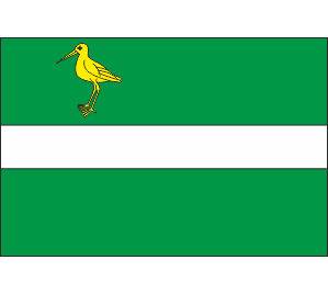 Flag of Kulykivskyj district (Ukraine)